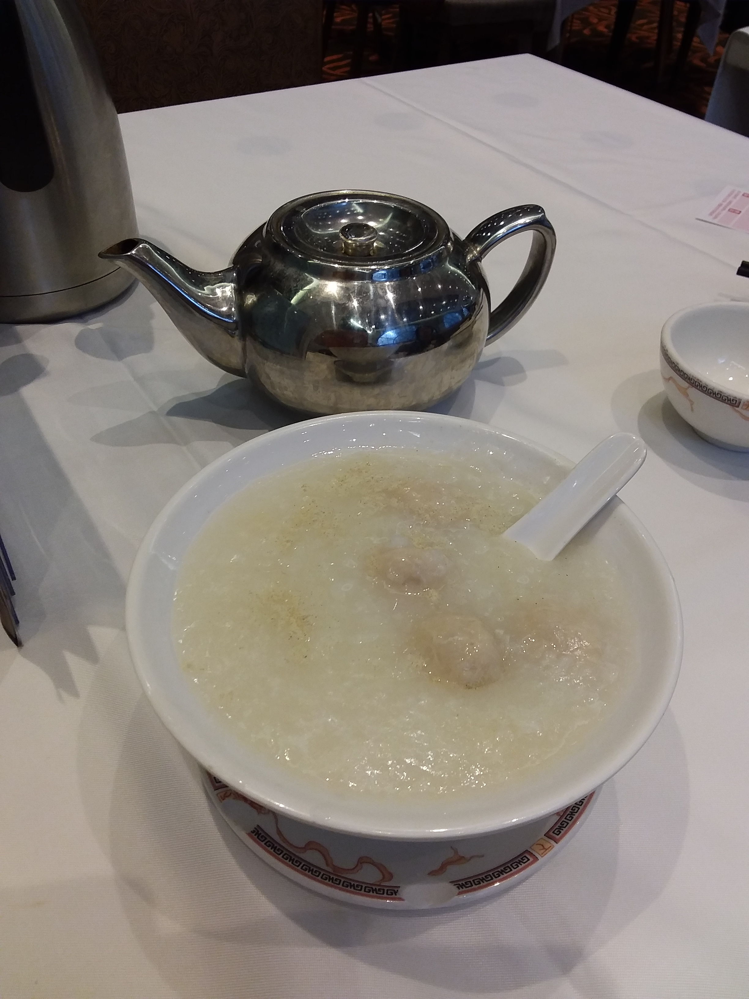 HK 灣仔 Wan Chai Hennessy Road 北海中心 CNT Tower 稻香酒家 Tao Heung Restaurant November 2018